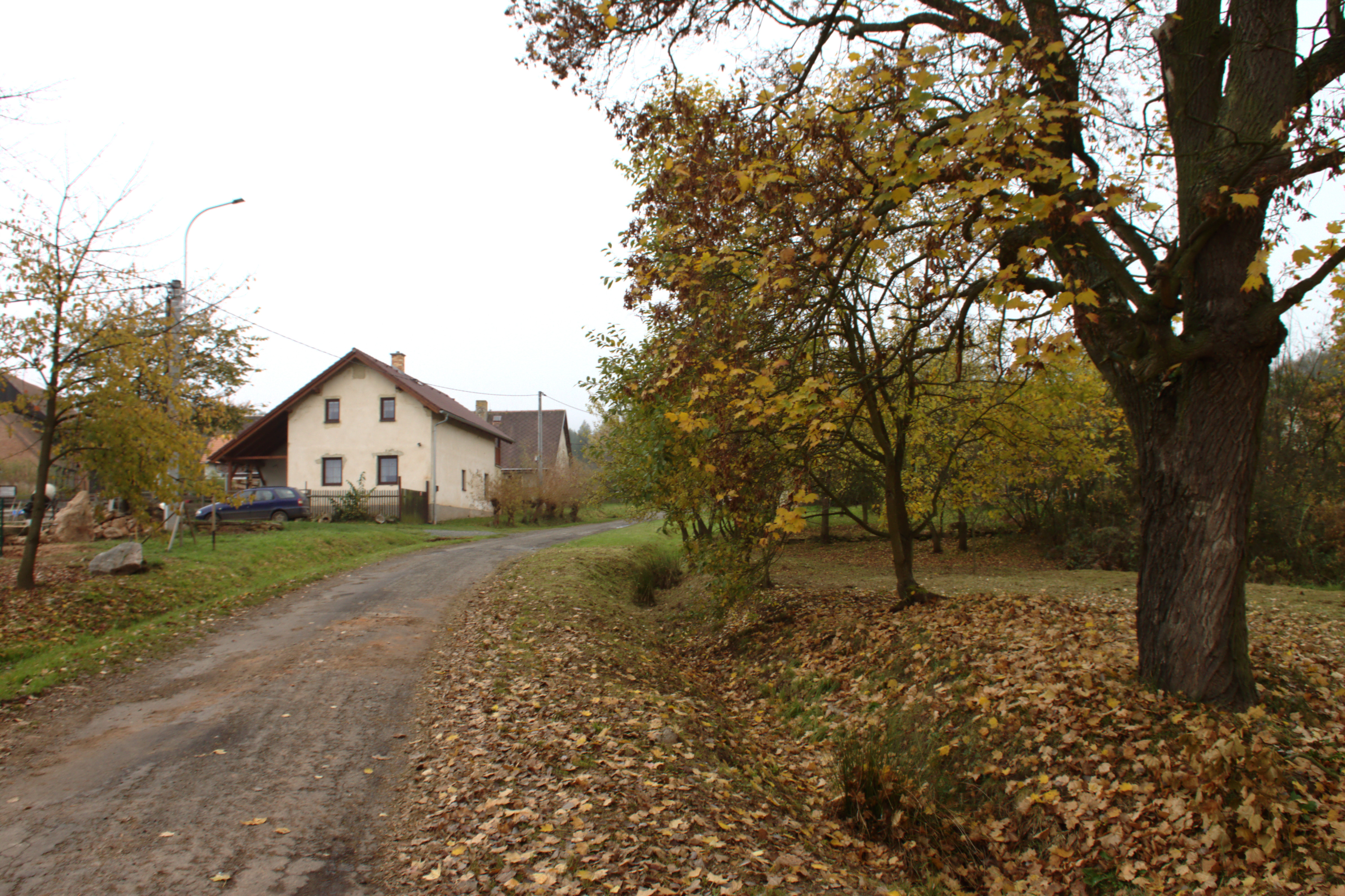 One of the buildings in the village of Domašín near Štědrá, Plzeň Region, CZ